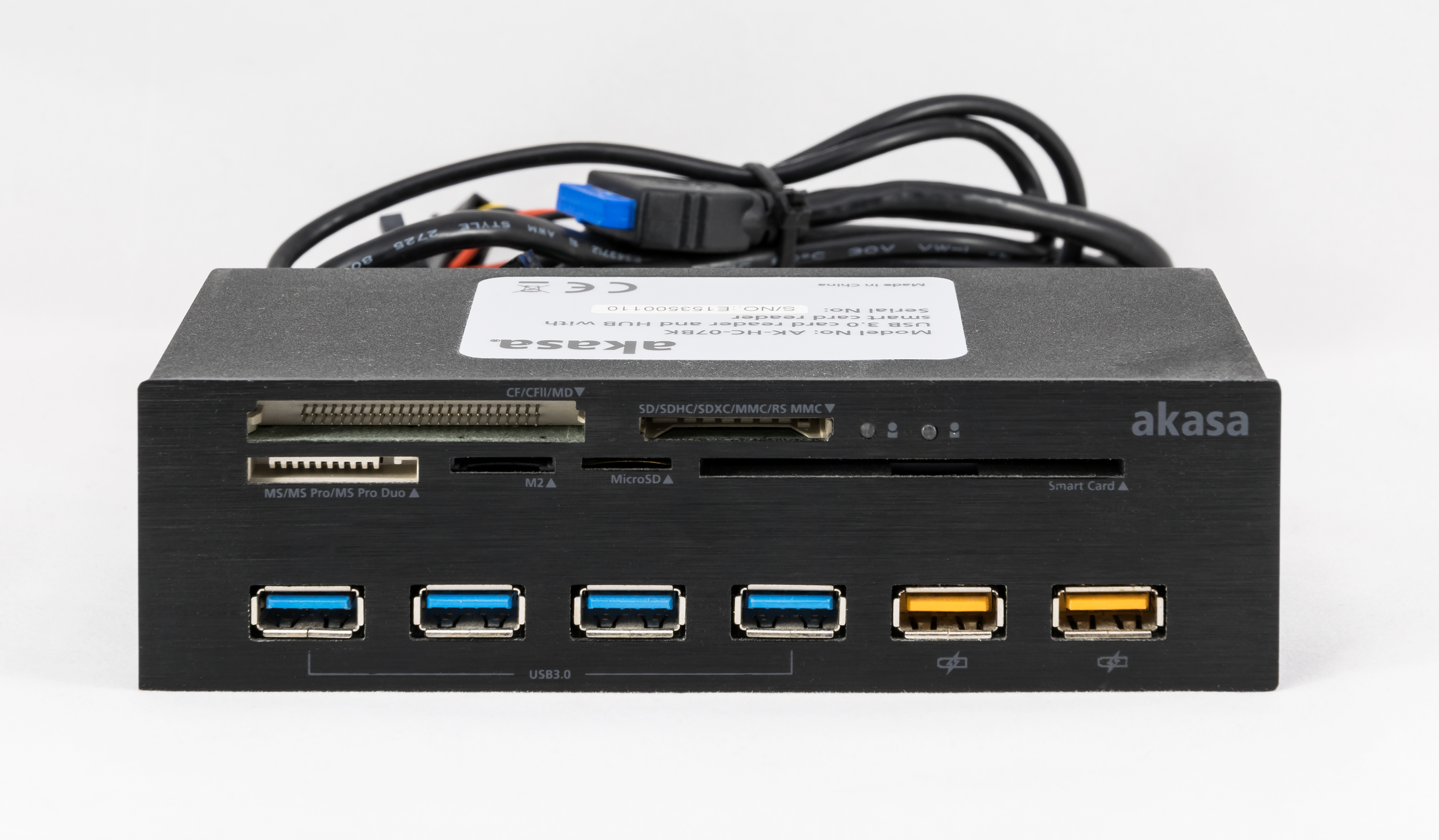 Akasa AK-HC-07BK card reader and USB hub